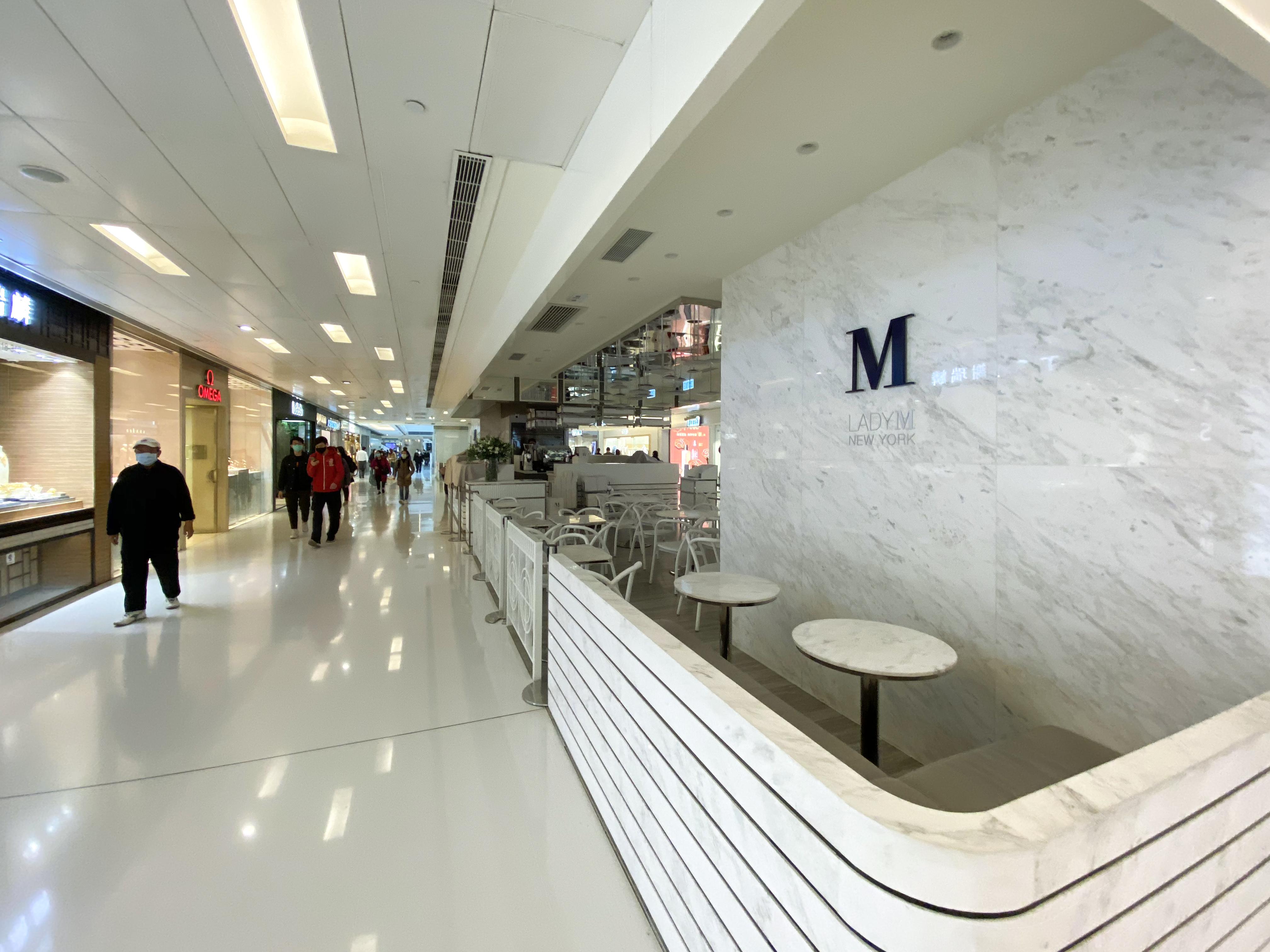 New Town Plaza LadyM closed one day